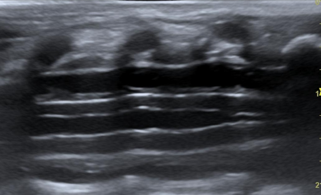 Ultrasound of 13 d old male infant with lumbar syringo/hydromyelia